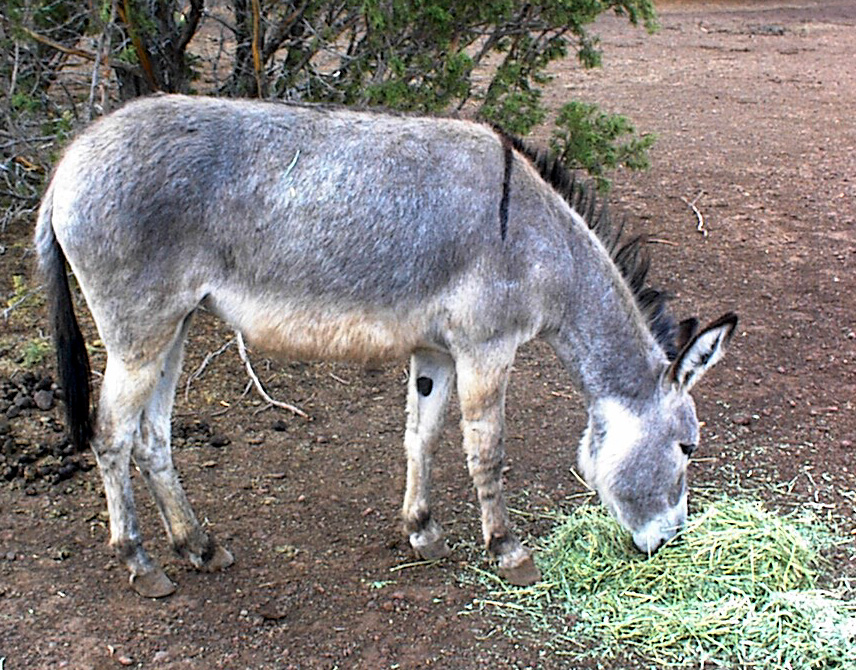 personal photo taken in July 02 of adopted female wild burro